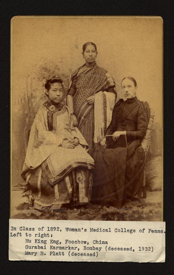 Photograph of Hu King Eng, Gurabai Karmarkar, and Mary H. Platt, members of the Class of 1892 at the Woman's Medical College of Pennsylvania.